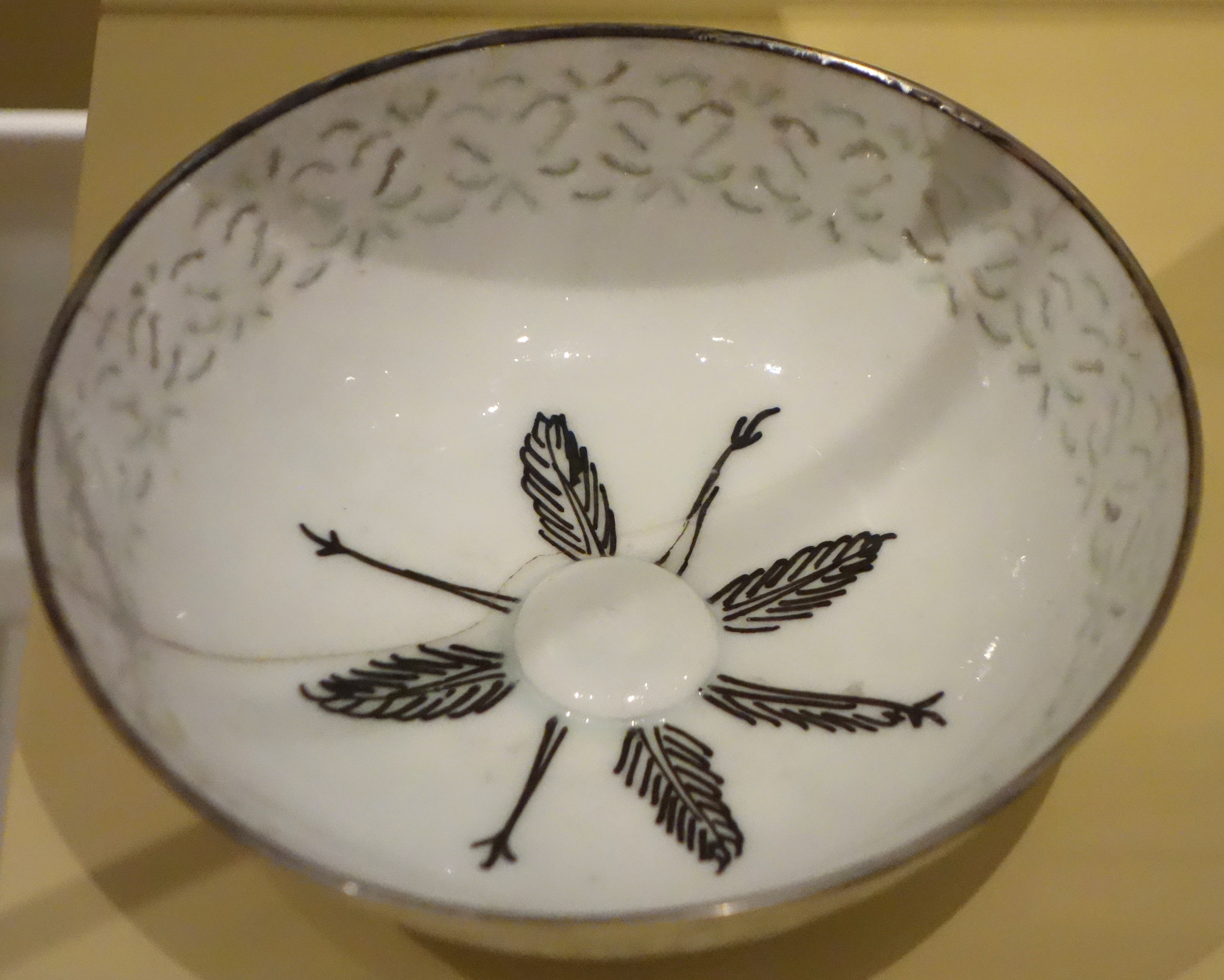 Exhibit in the Royal Ontario Museum, Toronto, Ontario, Canada. This work is old enough so that it is in the public domain.